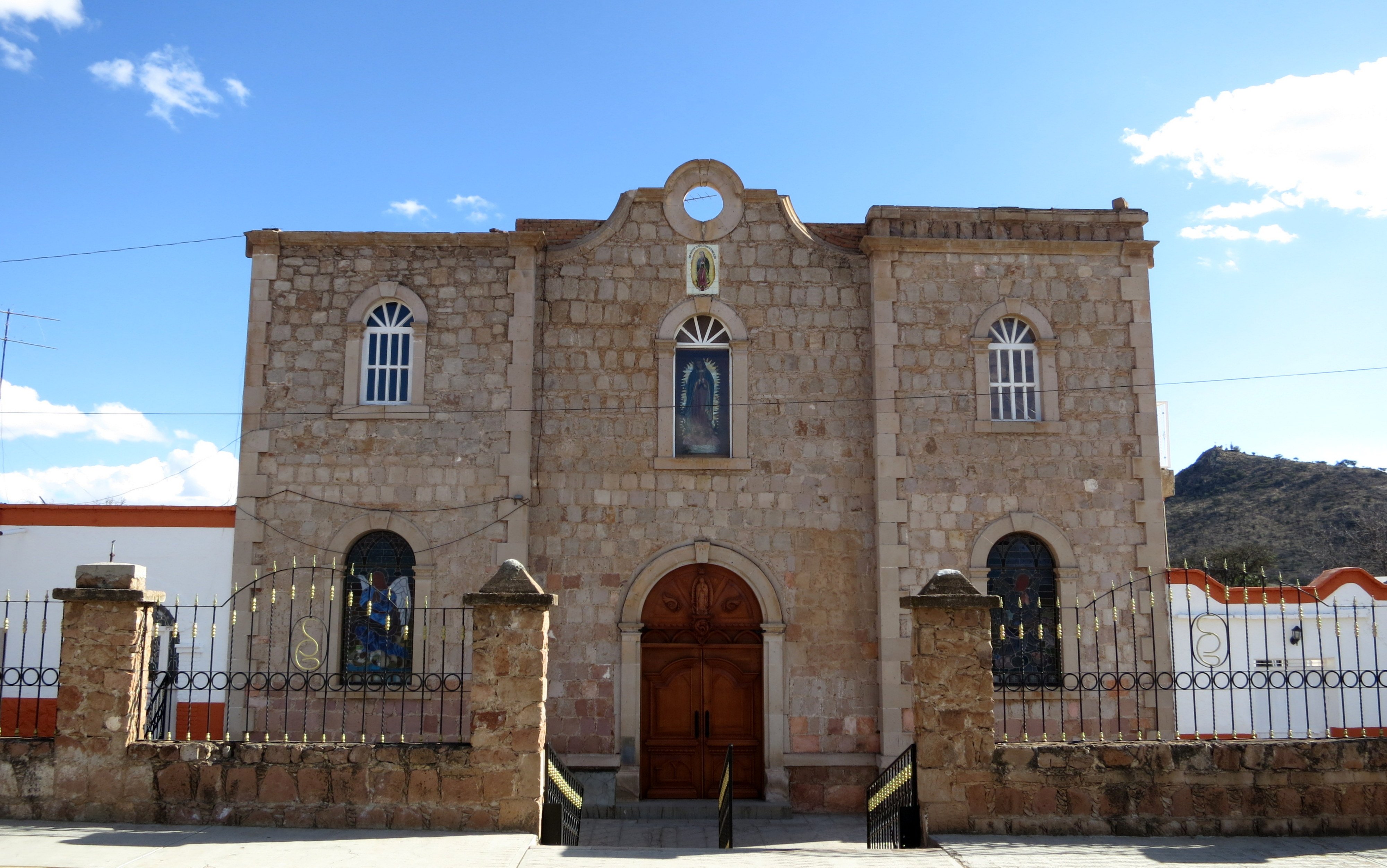 Iglesia de Virgen de Guadalupe (Francisco I. Madero, Durango) - exterior